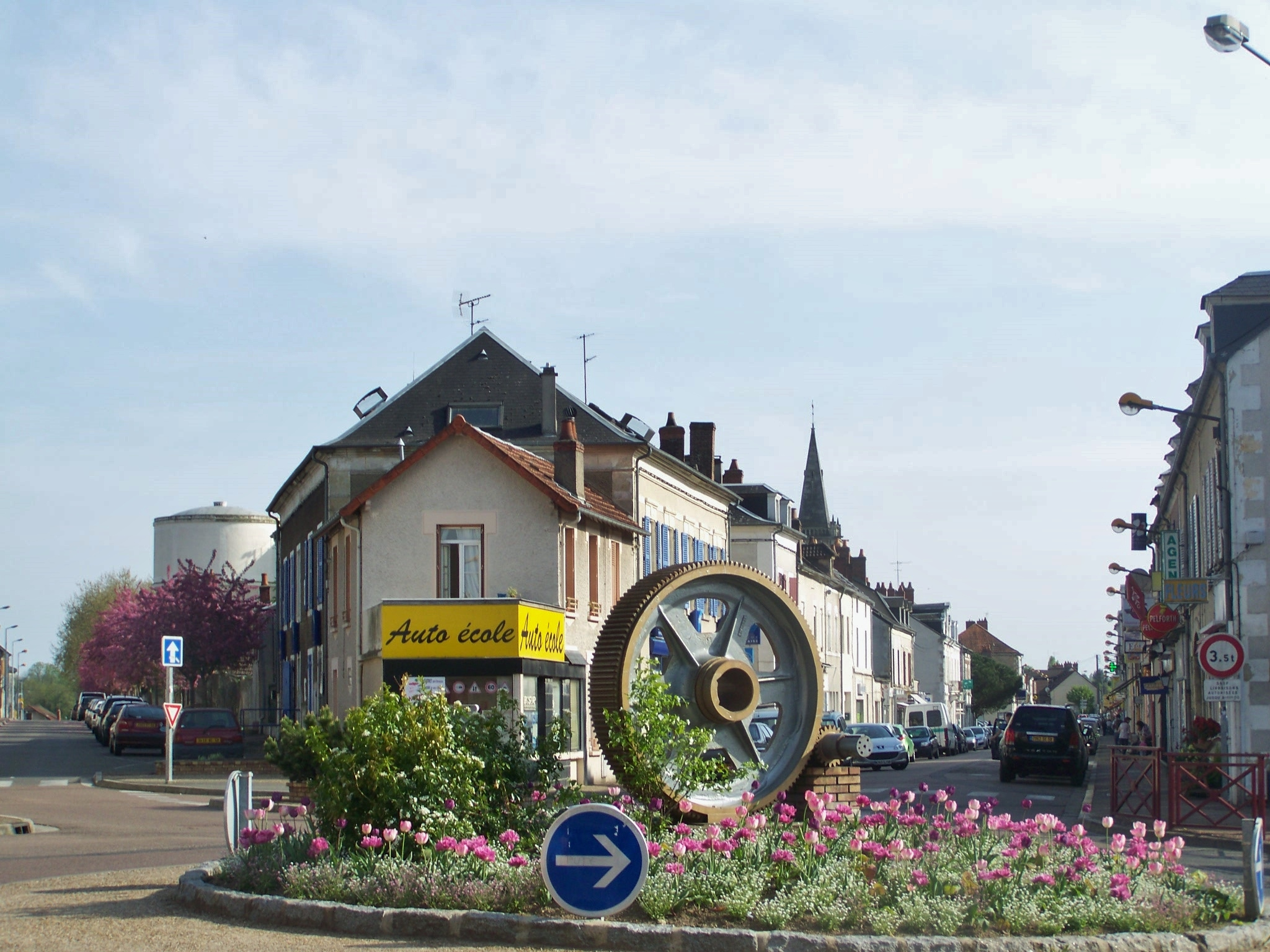 Sight of the French commune of Fourchambault village center, near Nevers in Nièvre.